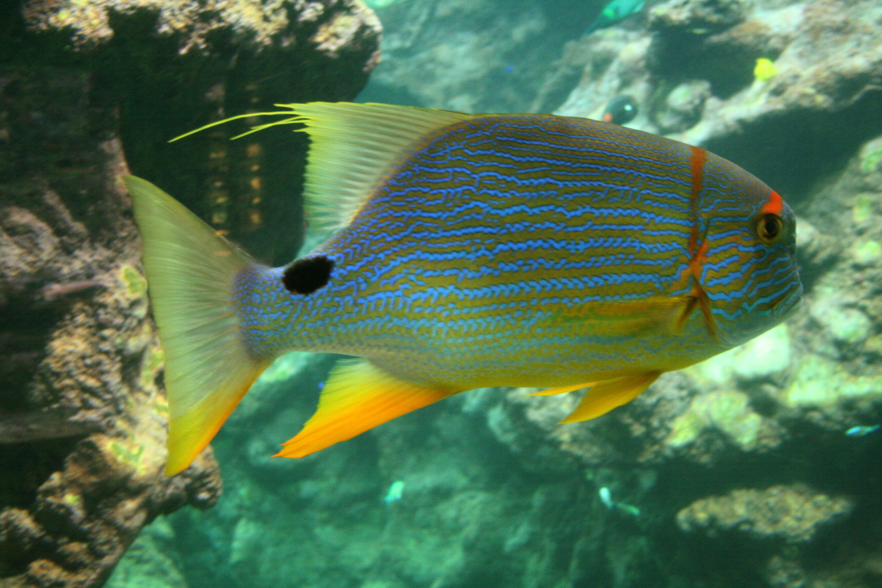 Symphorichthys spilurus (Sailfin Snapper) at Océanopolis, Brest, France